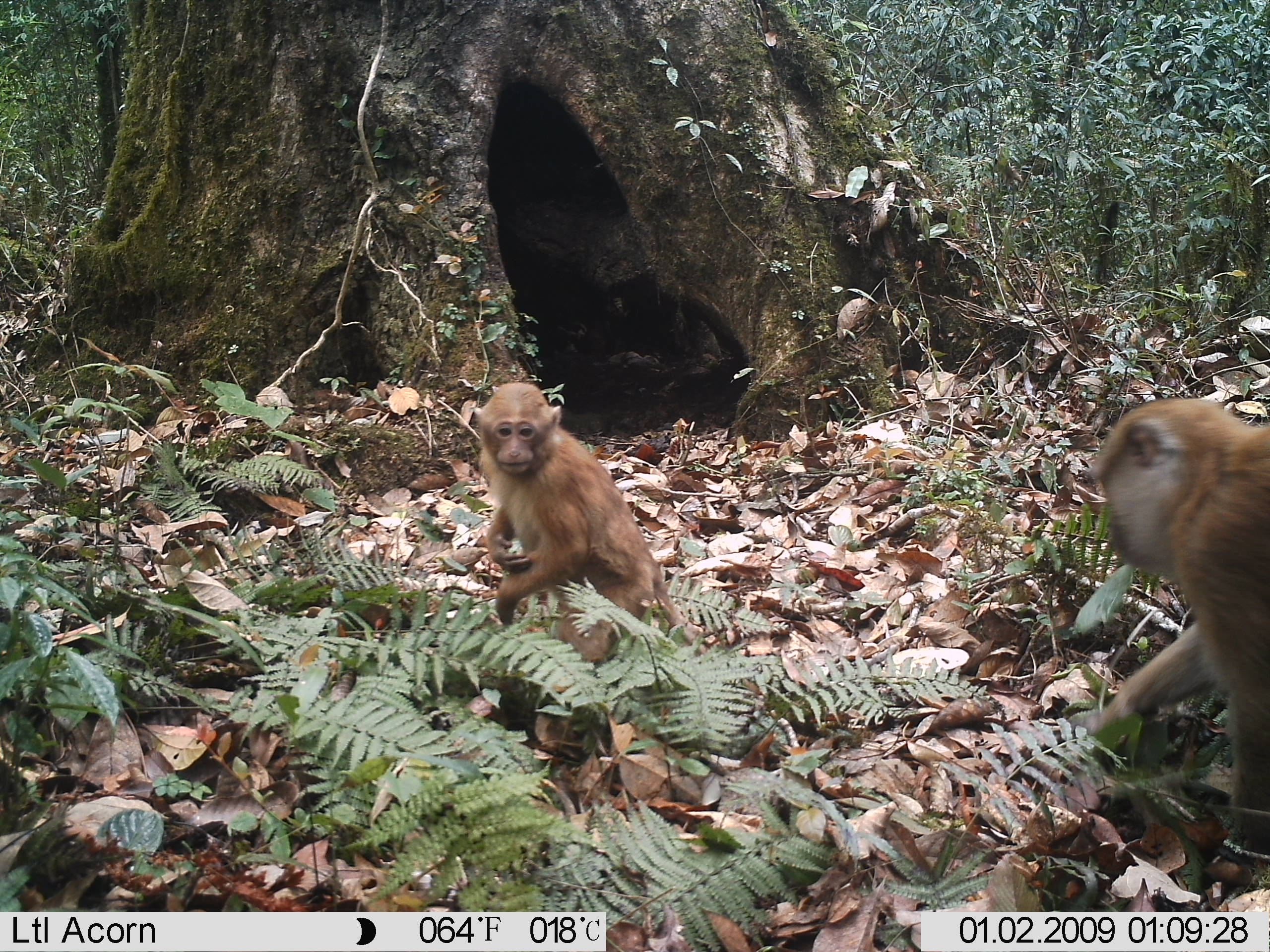 Arunachal macaque on a camera trap in Eaglenest Wildlife Sanctuary